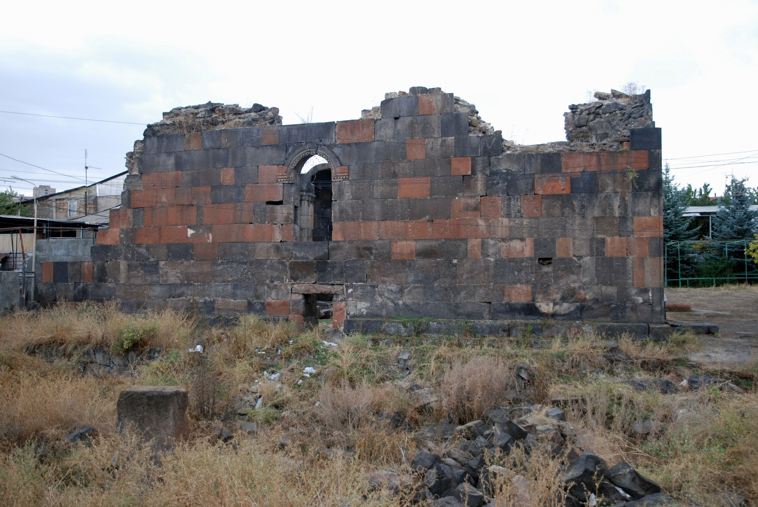 Avan, cathedral north side